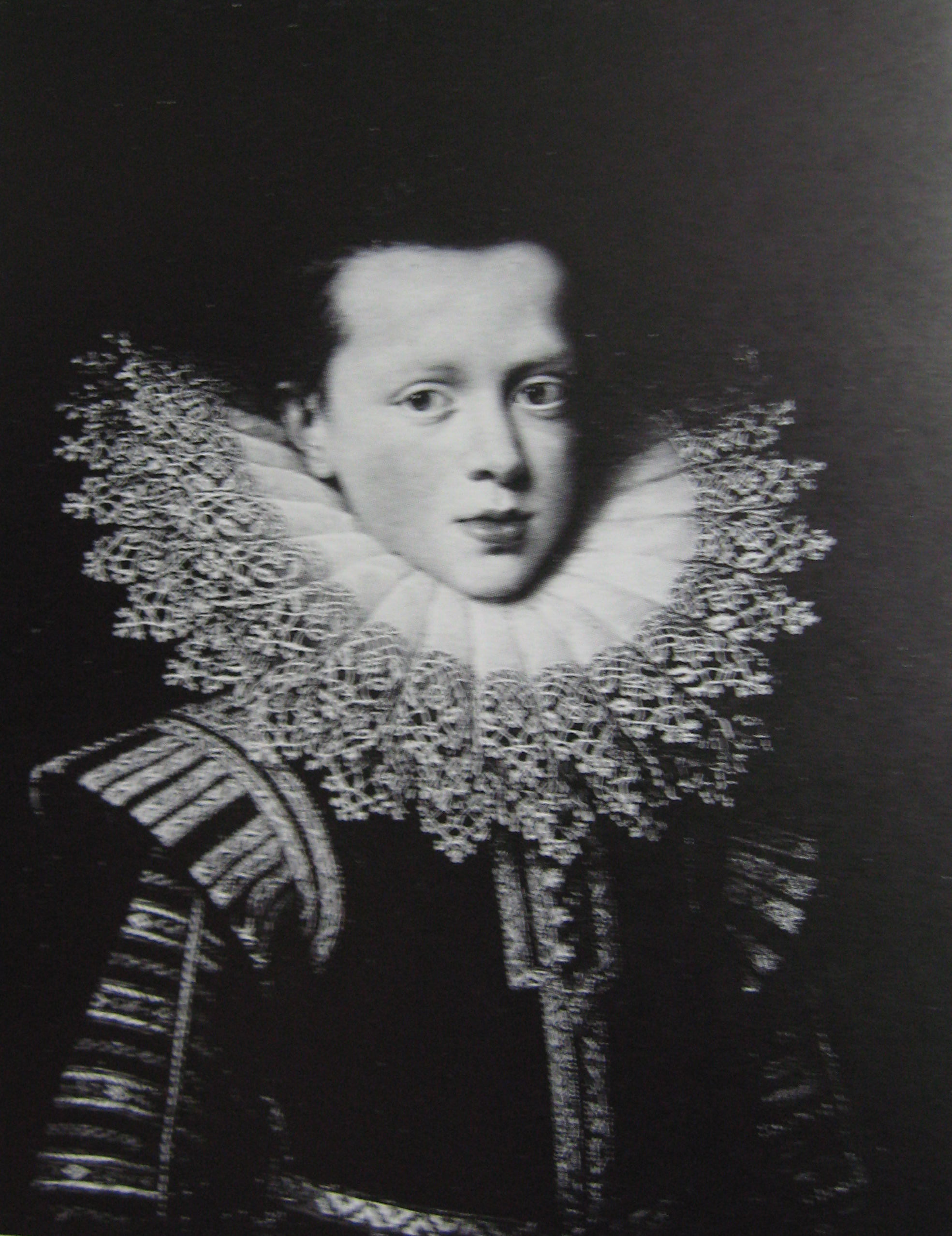 Portrait of a boy